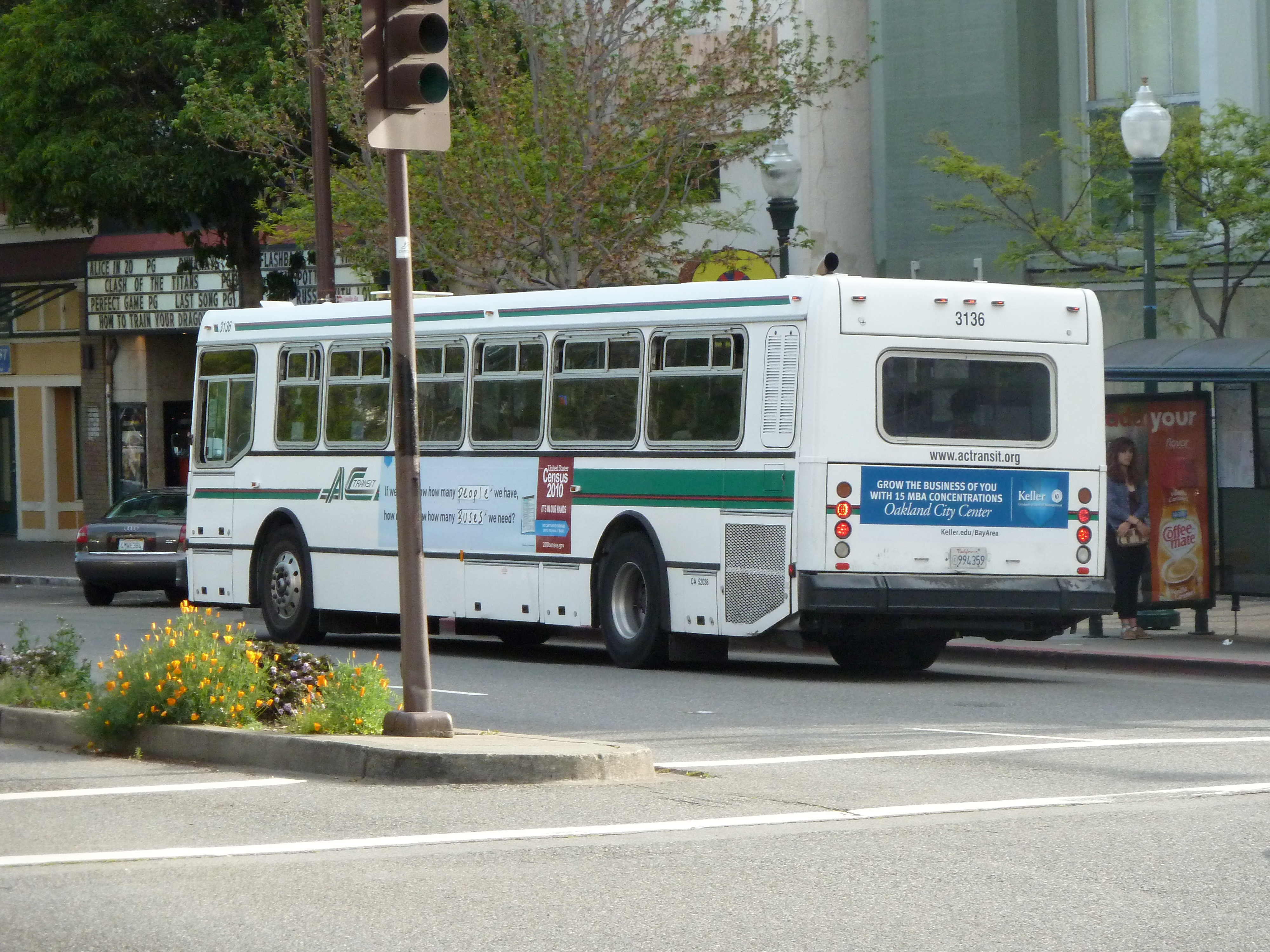 A 1998 AC Transit NABI 416